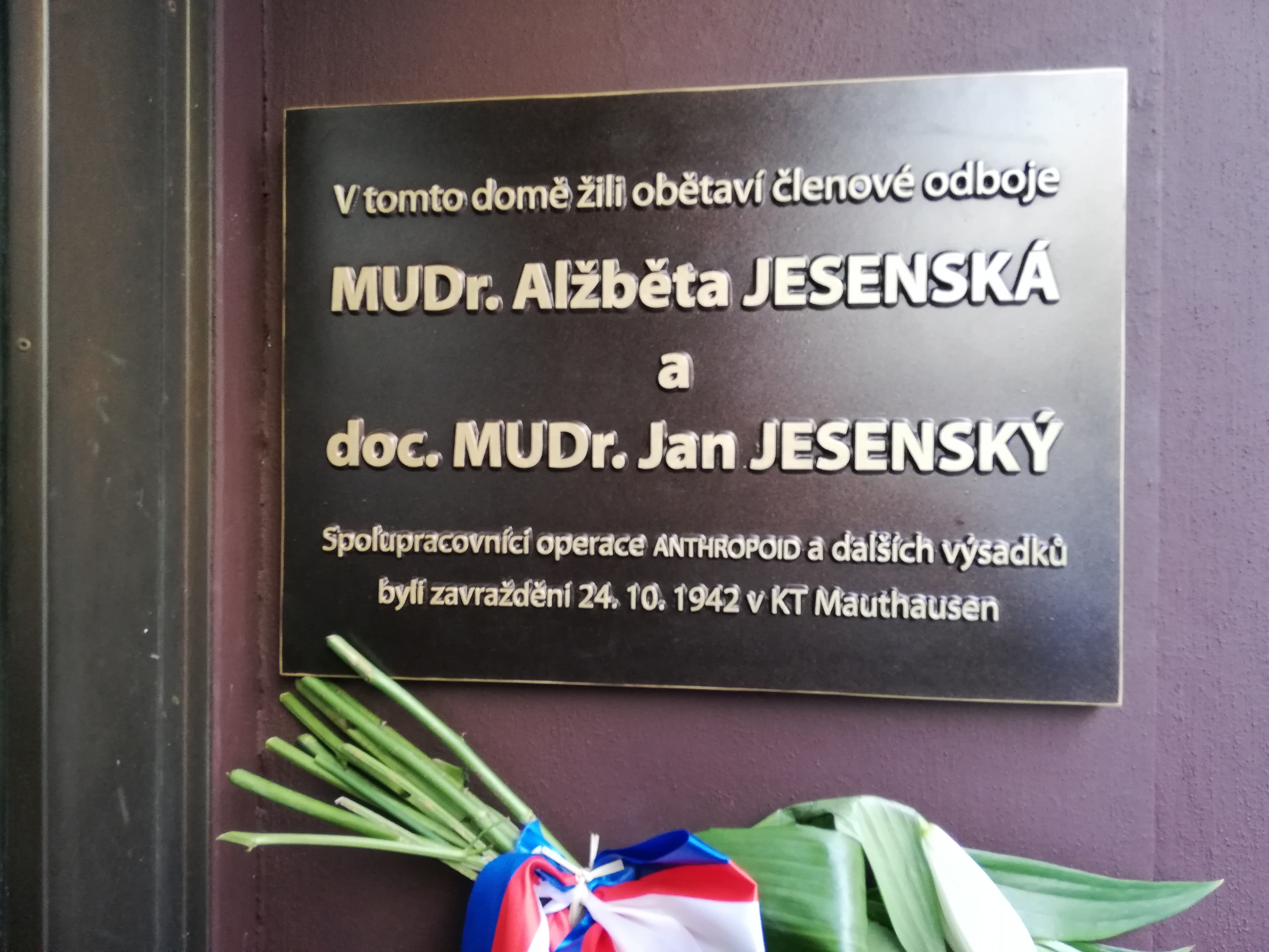 Assoc. MUDr. Jan Jesenský (March 5, 1904, Prague - October 24, 1942, Mauthausen Concentration Camp) was an associate professor at the Medical Faculty of Charles University in Prague and the brother of a swordsman, doctor and resistance fighter MUDr. Jiří Jesenský (1905–1942). Both brothers doc. MUDr. Jan Jesenský and MUDr. Jiří Jesenský were cousins of the journalist, writer and translator Milena Jesenská (1896–1944). Both became dentists and together during the Protectorate of Bohemia and Moravia actively engaged in anti-Nazi resistance. Jan and Jiří Jesenský were distant descendants of the doctor Ján Jesenský (Jan Jessenius) (1566–1621). Uncle of doc. MUDr. Jan Jesenský was Professor of Dentistry and Jaw Surgeon Jan Jesenský (1870–1947), who during the 1920s and 1930s was the head of the Dental Clinic at Charles University in Prague, Czechoslovakia. A memorial plaque in the center of Prague in the Old Town at the address: Skořepka 355/2 reminds two participants of the anti-Nazi resistance during WW2: doc. MUDr. Jan Jesenský and his wife MUDr. Alžběta Jesenska.